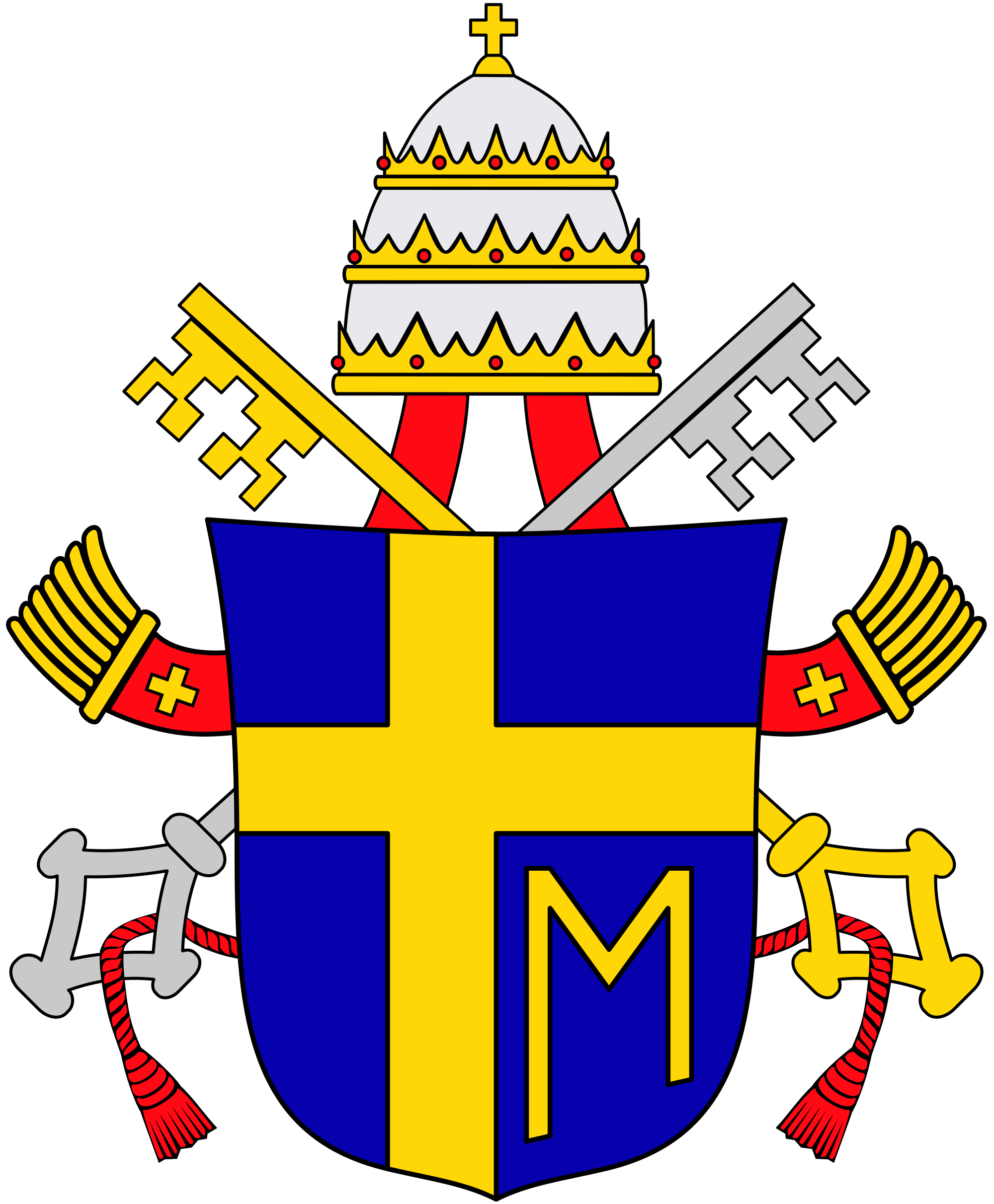 DETAILED (MULTILINGUAL) DESCRIPTION AT THE HOLY SEE WEBSITE: Coat of Arms of His Holiness John Paul II (The Holy See Press Office). P. Jaworski, PioM EN DE PL ,POLAND/Poznań; 24VIII2005, under GNU FDL only for this image file (not for idea of coat of arms, that belongs to John Paul II), John Paul II coat of arms, Drawn in InkScape